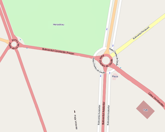 A roadmap showing the area around Charles de Gaulle Square in Bucharest.